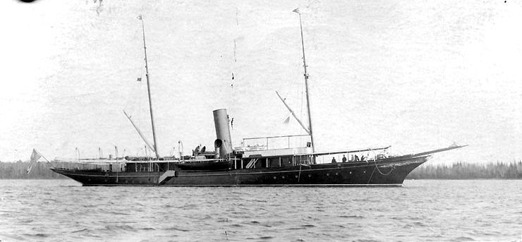 Rambler (American Steam Yacht, 1900) In a harbor, prior to World War I. This yacht served as USS Rambler (SP-211) in 1917–1919.